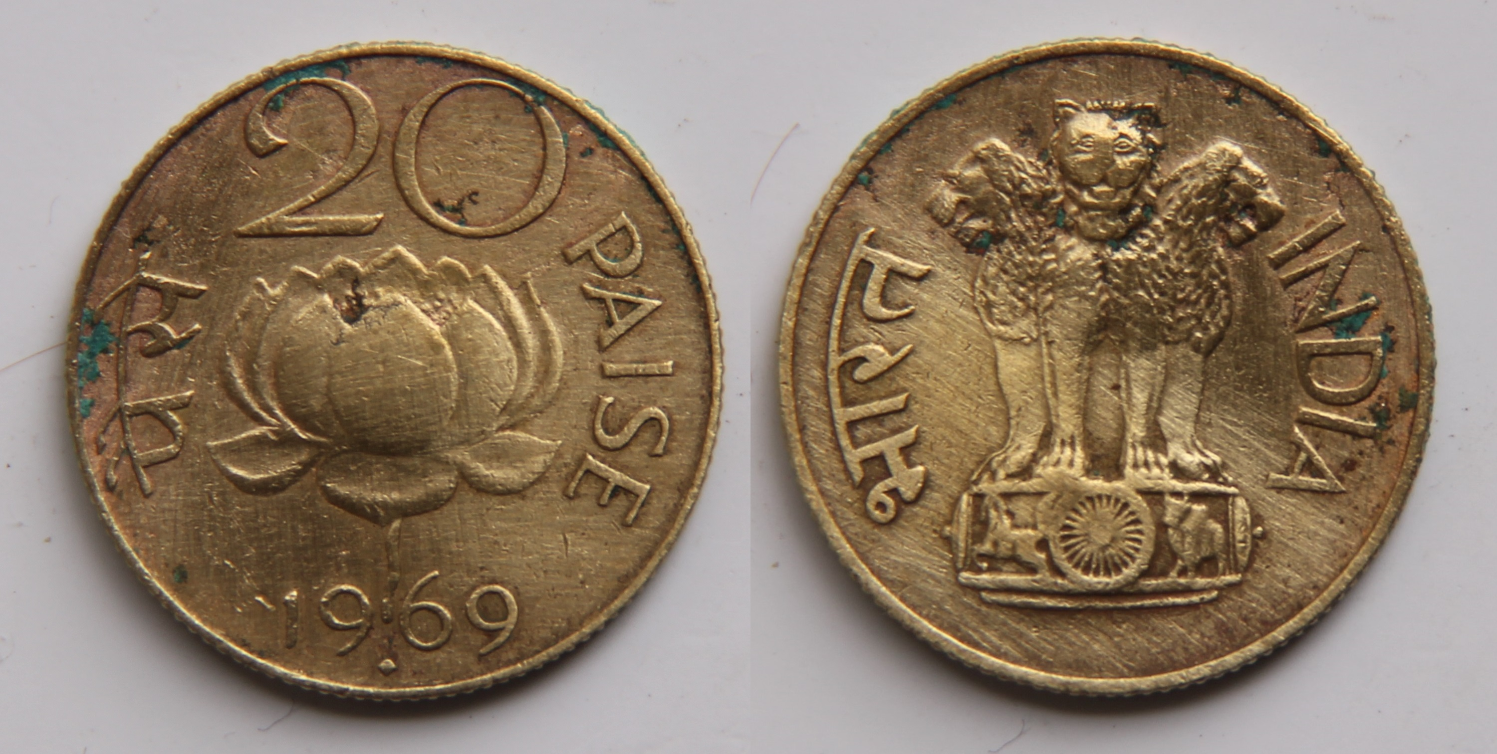 Face value: 20 Paise. Country: India. Year of minting: 1969. Metal: Copper (54%-63%), Zinc (36%-27%) and Nickel (10%). Shape: Round. Obverse: Lotus (National flower of India), year of minting and face value. Reverse: National Emblem of India and country name in Hindi and English. Edge: G - grained, type: Mastaba. Shape: Round. Weight: 4.6 g. Diameter: 22 mm. Thickness: 1.75 mm. Total mintage: Total 332,725,000 coins minted from 1968-1971. Comment: Coin information obtained from this and this source.